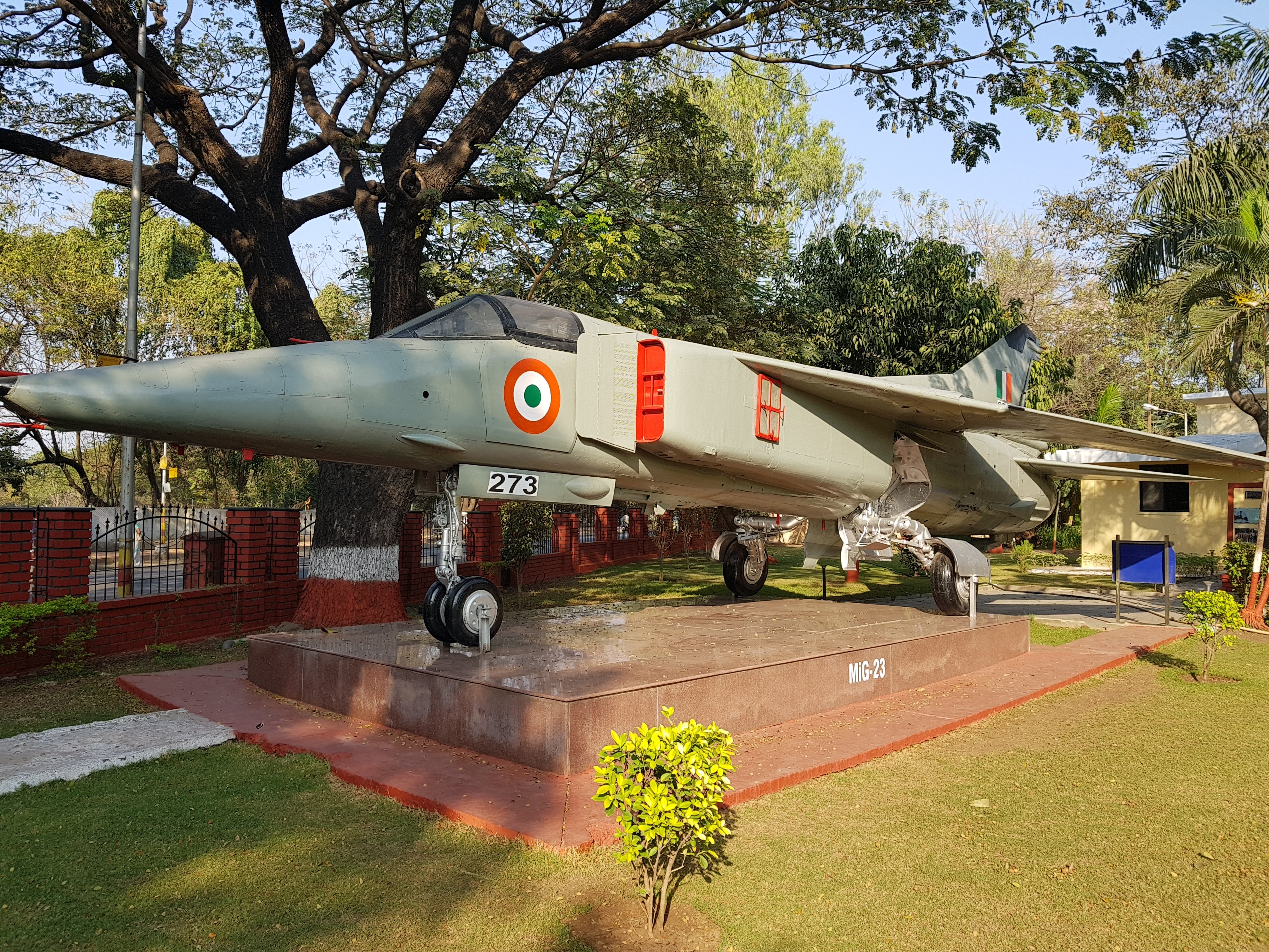 Mig-23 at National War Memorial Southern Command, Pune